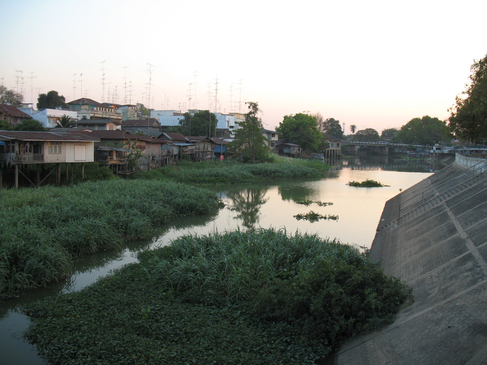 The Lopburi River in Lopburi downtown.